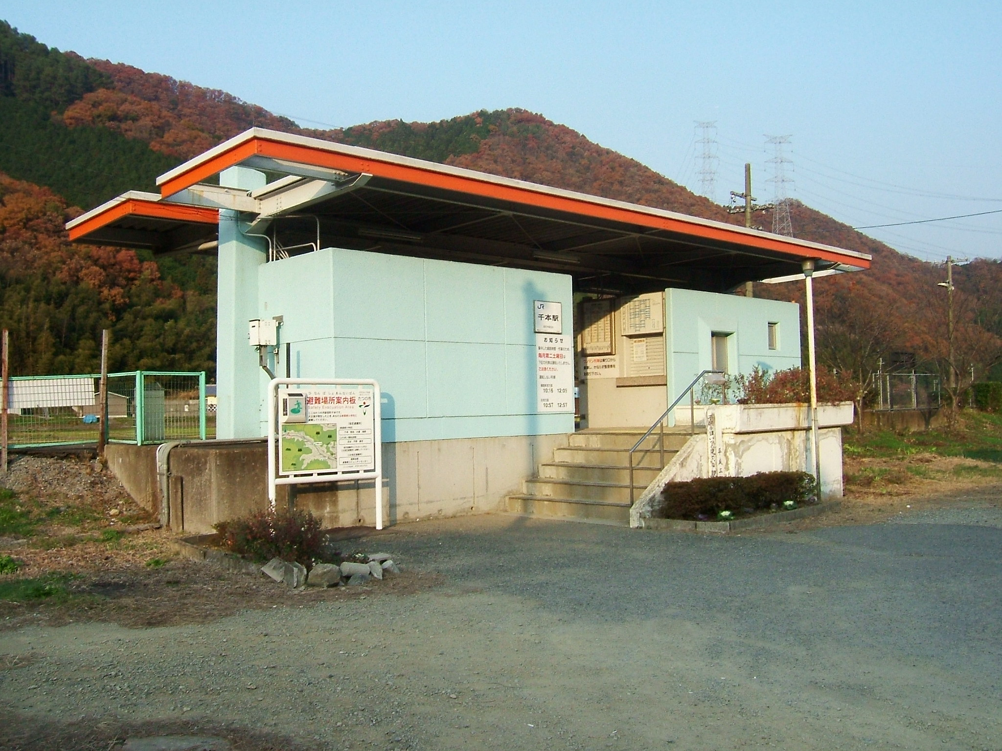 JR Kishin Line Sembon Station